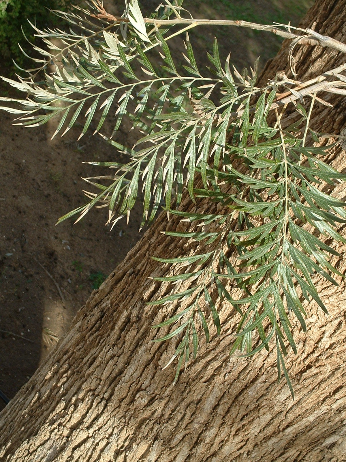 Leaves and trunk of Grevillea robusta. Photographed in Karkur, Israel; Dec. 30, 2005; Fuji FinePix 2650 camera.